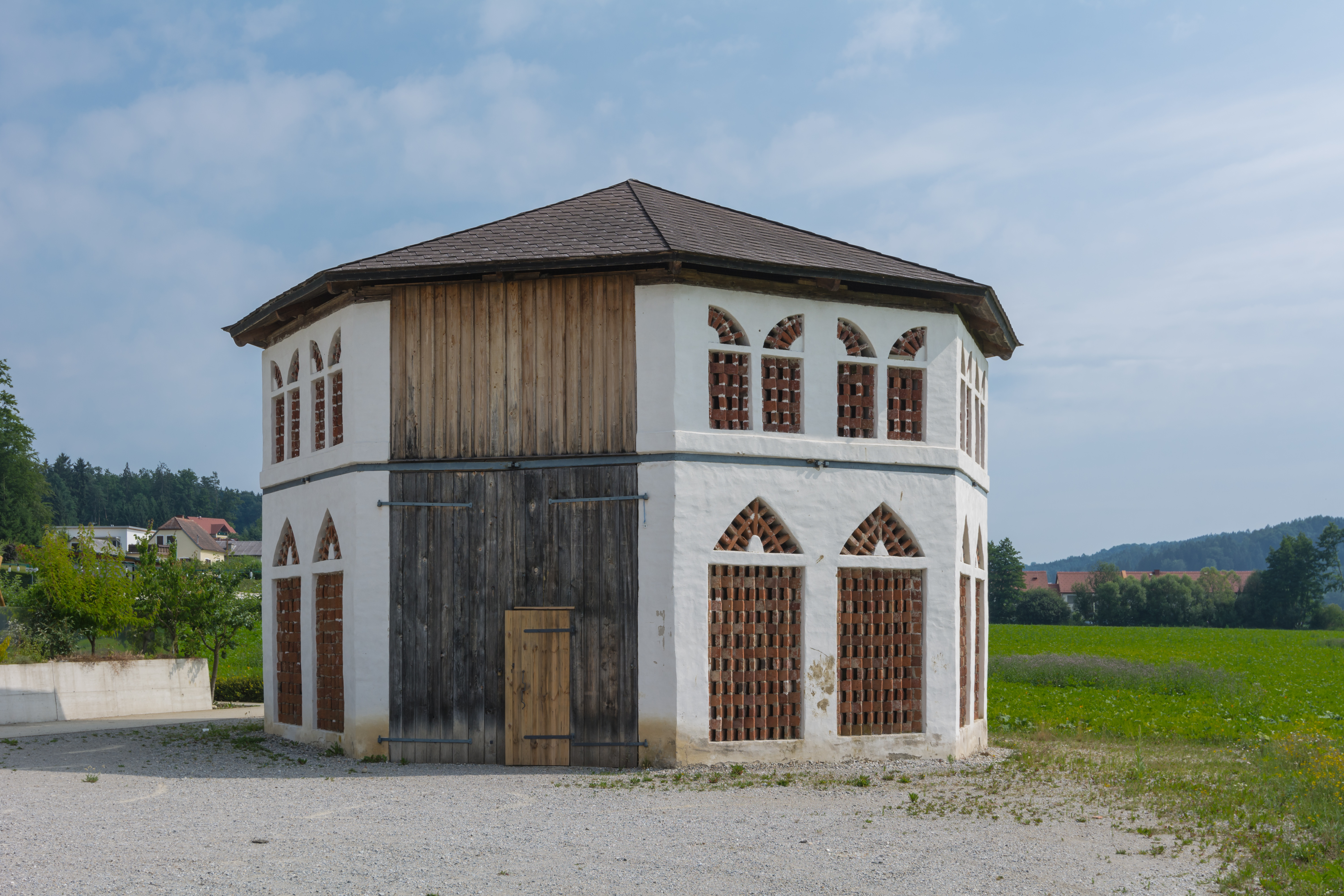 This octogonal barn was built in the 19th century. Today it is used for events in the community of Vasoldsberg.